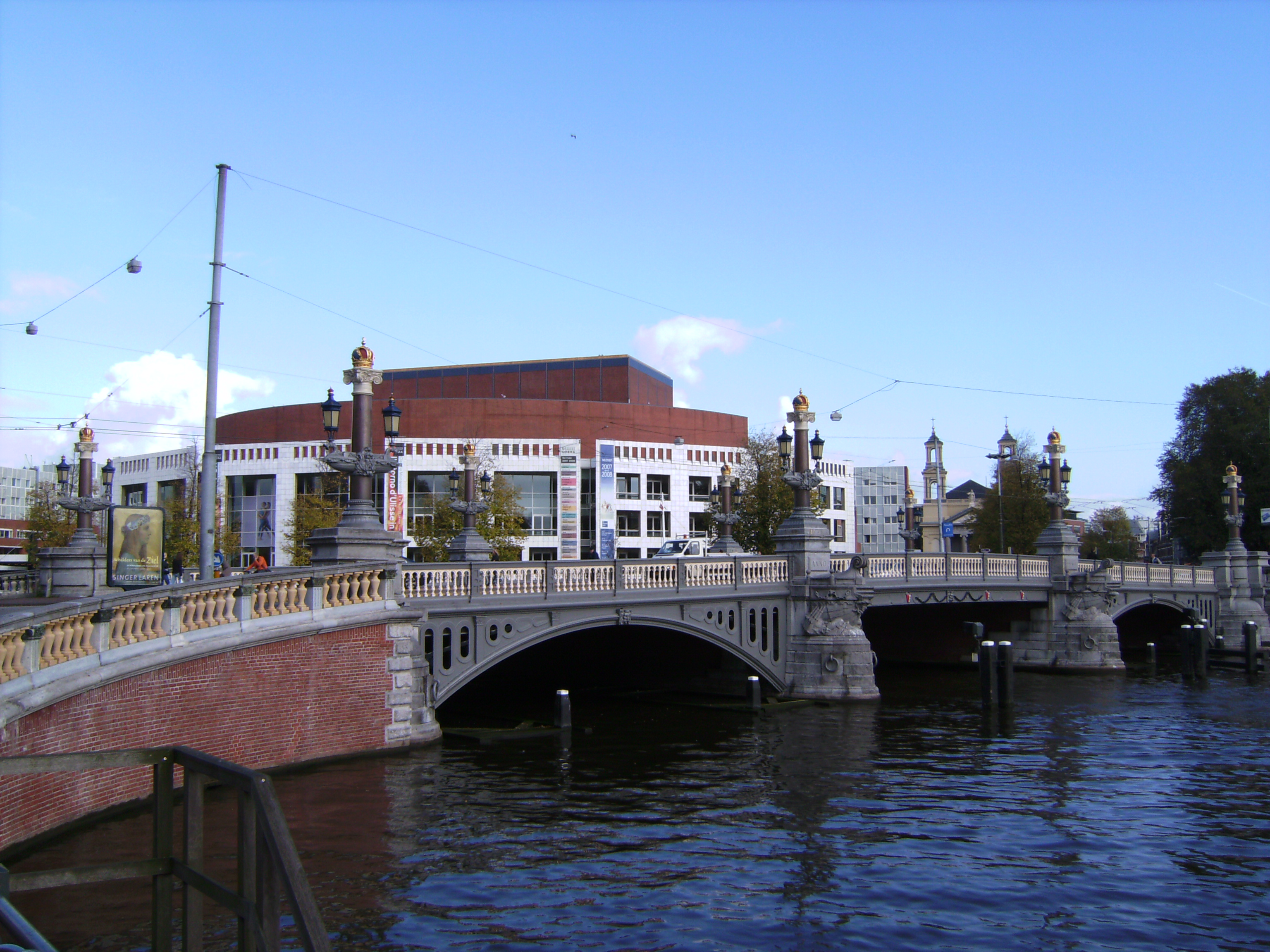 Amsterdam, de Blauwe Brug and Stopera